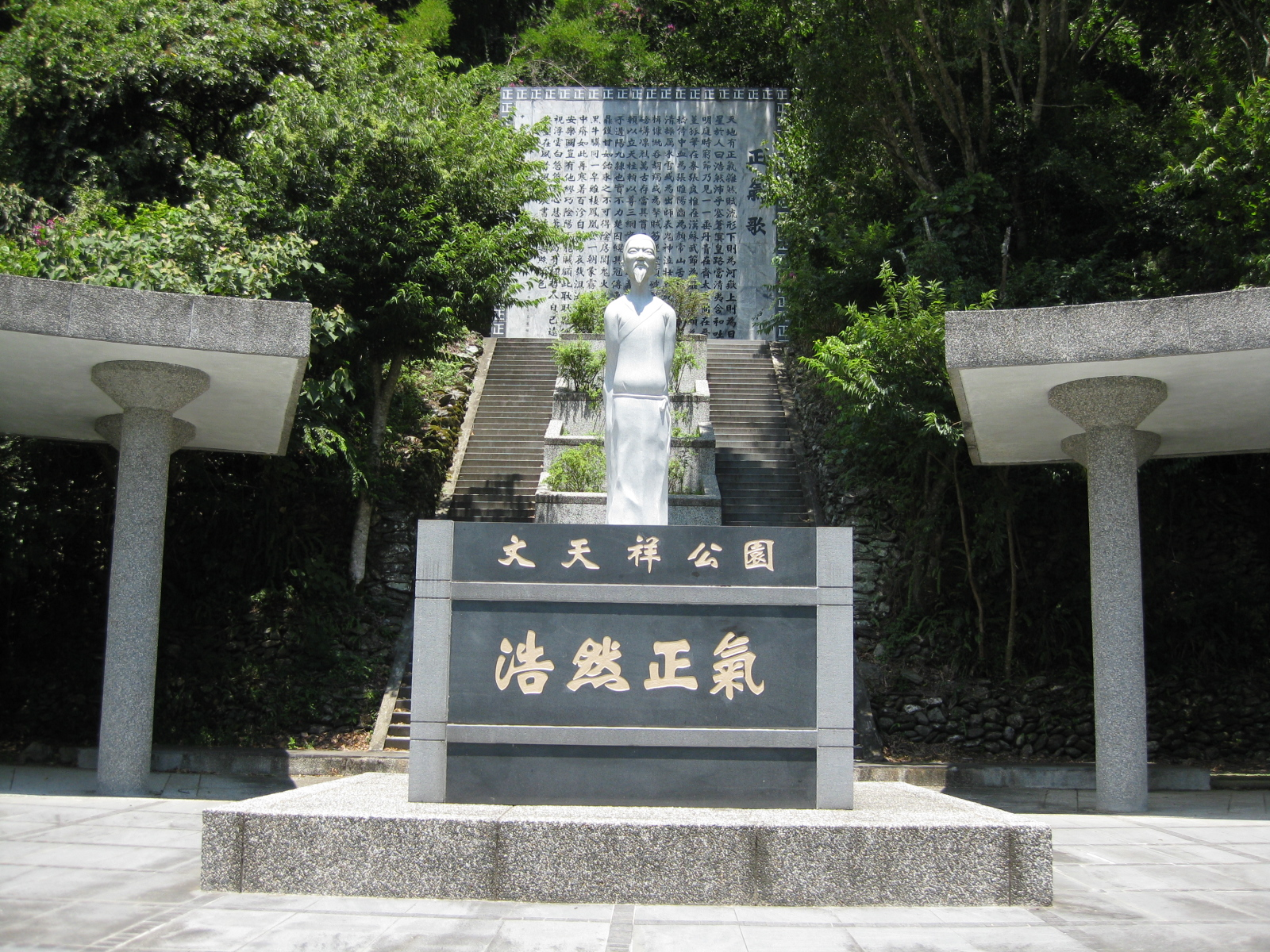 Statue of Wen Tiansiang located at Wen Tiansiang Park in Hualien County,which was built on the site of its predecessor,Sakuma Shrine.